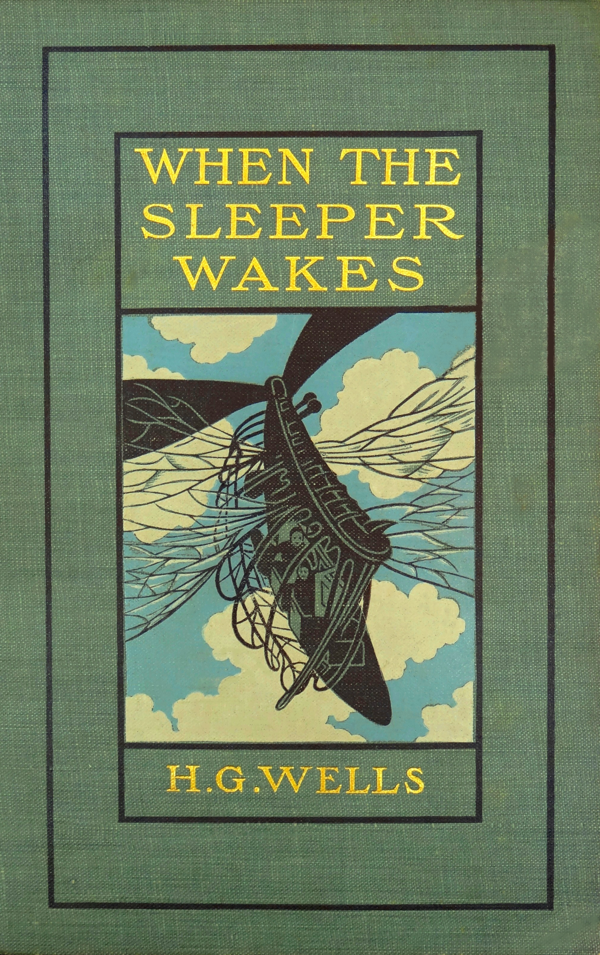 "When the Sleeper Wakes" by H. G. Wells. New York: Harper & Brothers, 1899. First U.S. Edition. Art by H. Lanos.